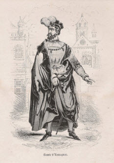 John V, Count of Armagnac. Original steel engraving, designed by J. Lecurieux and engraved by J. Thompson. 1826.